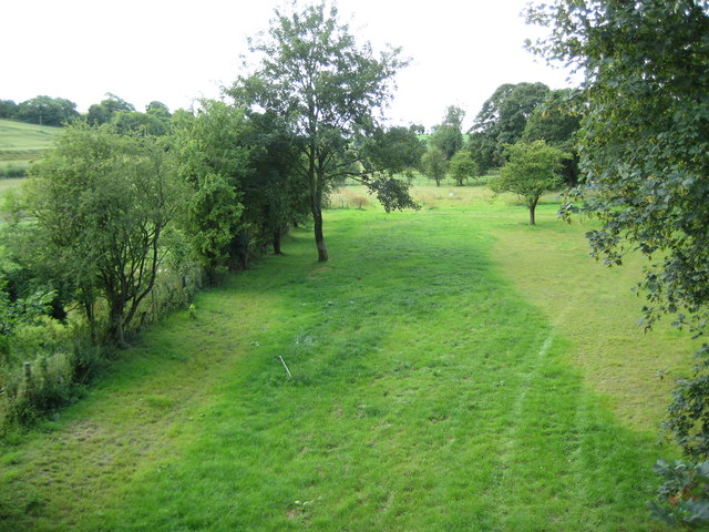 The former Midland and South Western Junction Railway (M&SWJR) extended their main line from Swindon to Andover through Collingbourne Kingston along this route in 1891. However it was not until 1932 that the halt here was built and a photograph available elsewhere on the internet shows that it was nothing more than a couple of short wooden platforms each with a rudimentary corrugated metal hut as a waiting room. The train service was odd to say the least, with a 1953 timetable showing 3 trains leaving northbound for Swindon at 8.18 am, 3.01 pm and 6.07 pm, with the first and the last continuing the full length of the M&SWJR to Cheltenham, while there were 4 trains leaving southbound for Andover at 8.41 am, 4.11 pm, 5.40 pm and 7.57 pm. However the timetable did show the through timings to get from Collingbourne Kingston to Newcastle-upon-Tyne if you so desired (arriving at 6.29 pm if you caught the 8.18 am or 4.22 am if you caught the 6.07 pm...) The whole line was closed in September 1961, just a couple of months after Doctor Richard Beeching became Chairman of the British Railways Board. So the railway was already out of use by the time that Beeching's first report announcing wholesale closures of the railway network was published in 1963.